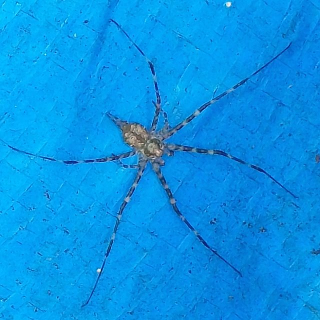 Tamopsis novaehollandiae on Blue Plastic